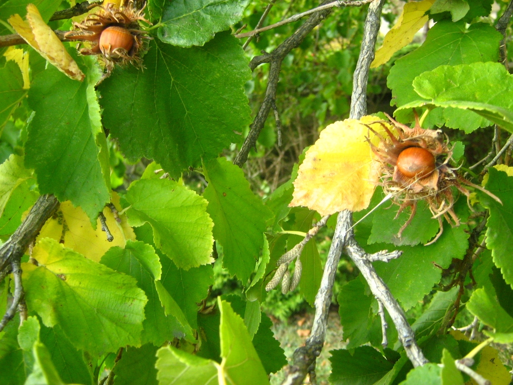 Corylus colurna